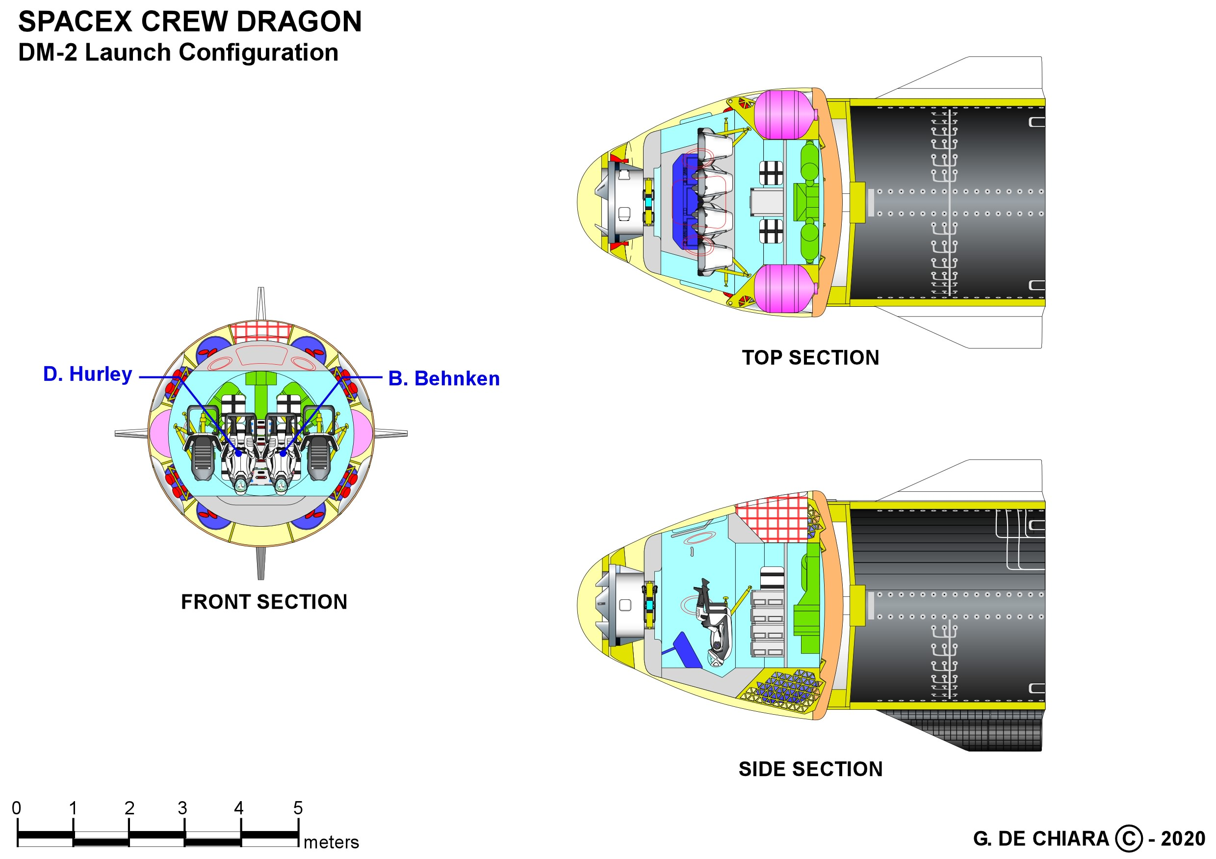 Crew Dragon Section Views